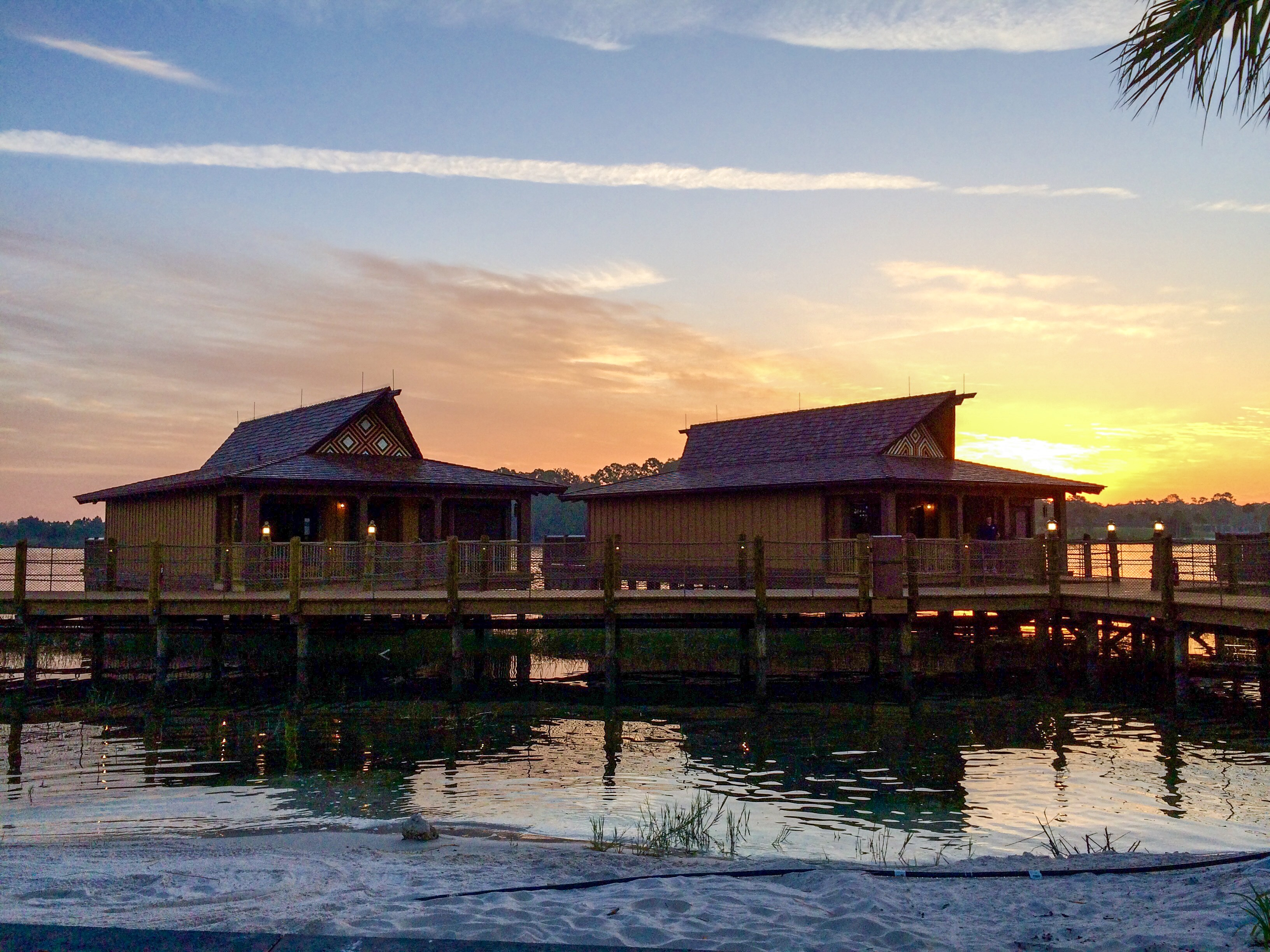 Bungalows at Disney's Polynesian Village Resort.